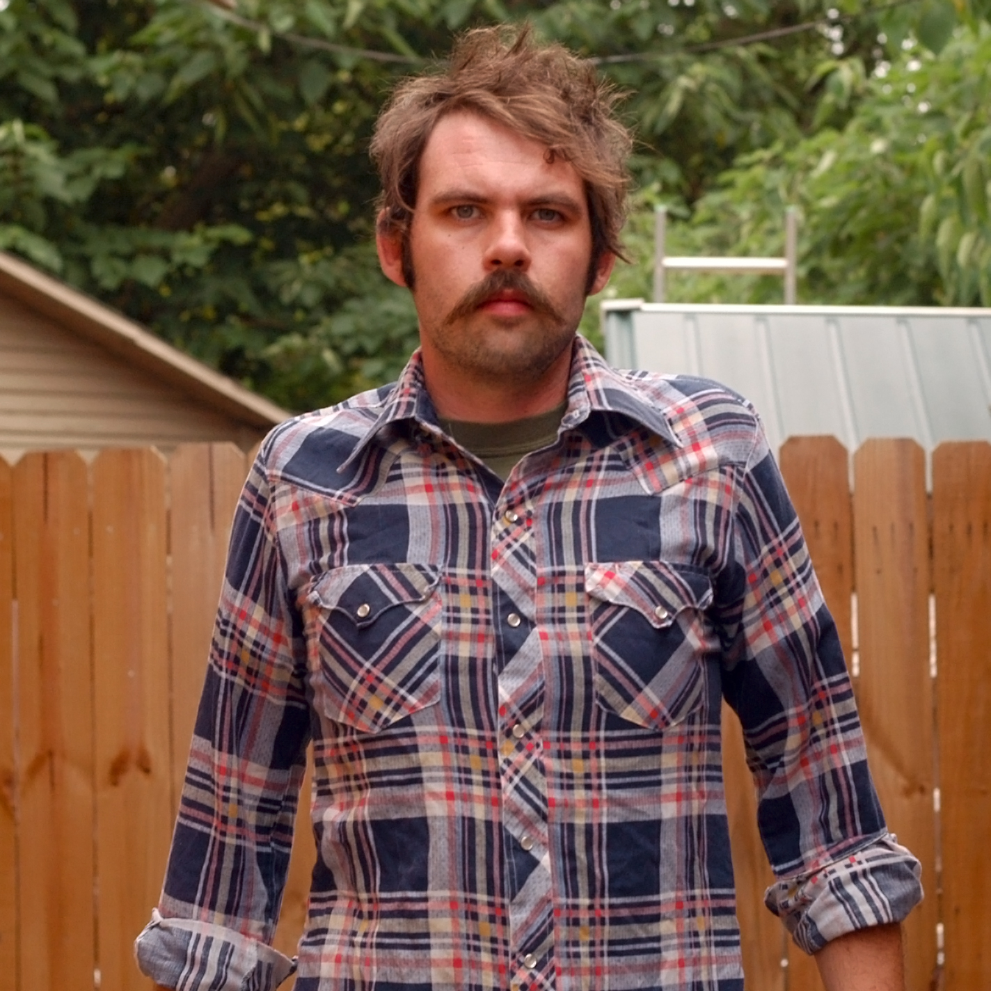 self-portrait of Jonathan Youngblood, illustrating the concept "hipster"